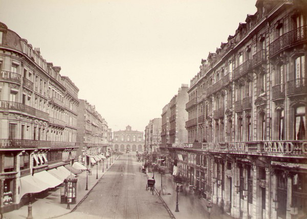 Lille in 1878 by Alphonse Le Blondel (°9 avril 1814- †1875) - Rue Faidherbe and in the distance, the station. Photo probably taken from the Lille theater burnt down in April 1903. The buildings on each side of the street were destroyed during the World War I (october 1914), from the Theater Square to the rue des Pont de Commines.